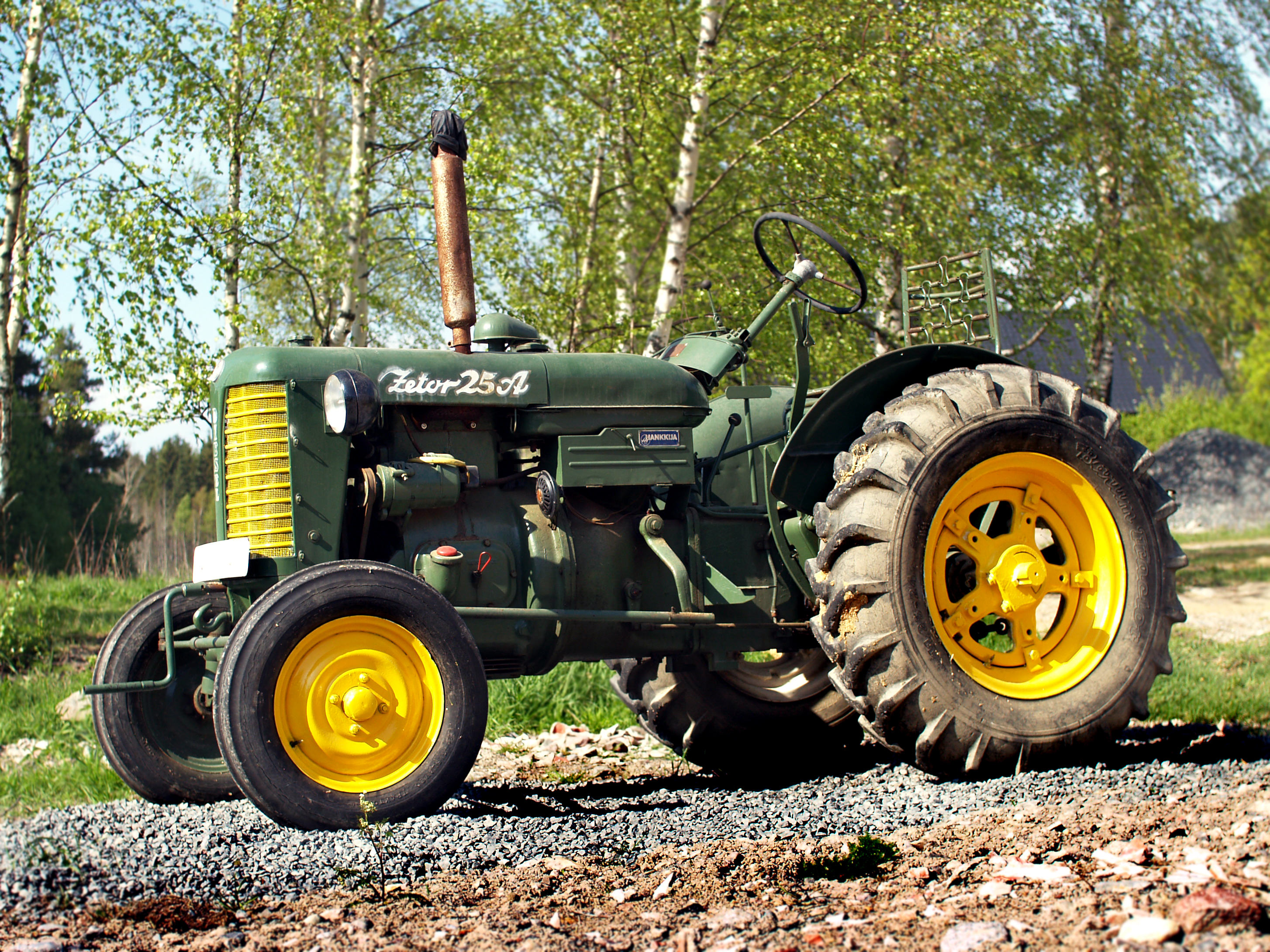 Zetor 25A tractor